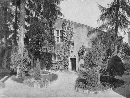 Home of Joan